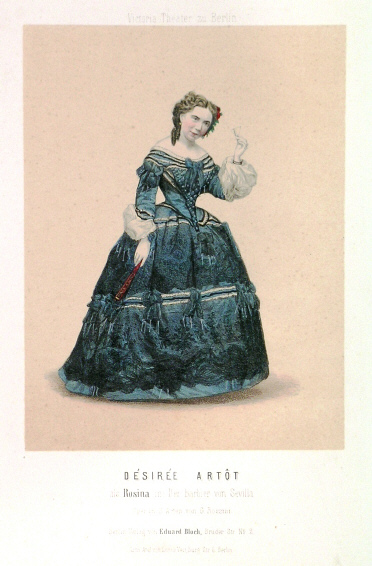 The opera-singer Désirée Artôt de Padilla (1835-1907)